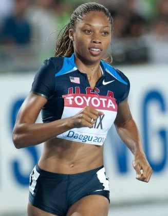 Allyson Felix during 2011 World championships Athletics in Daegu